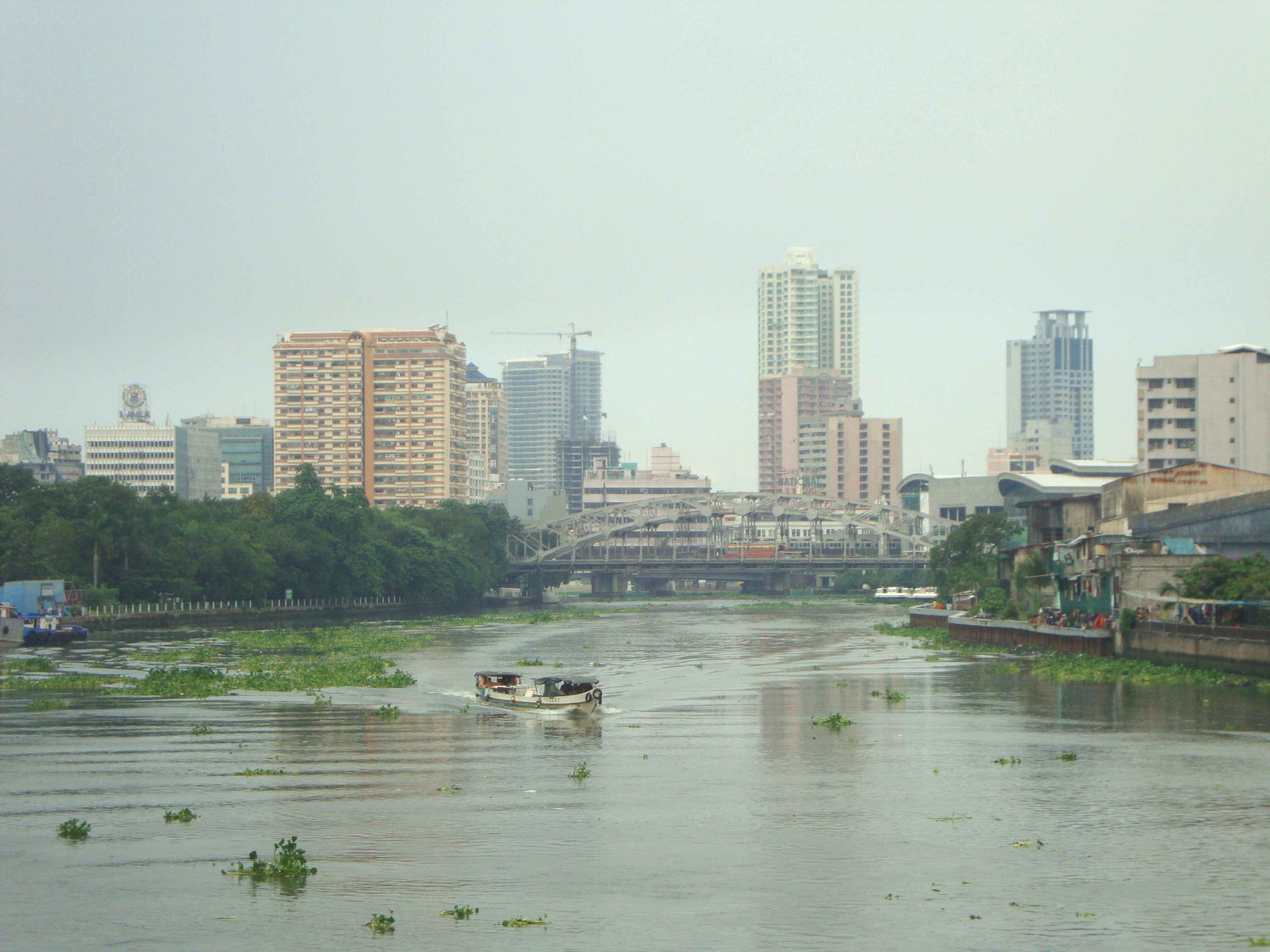 Pasig River, facing Quiapo